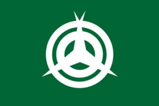 Flag of Misato Saitama